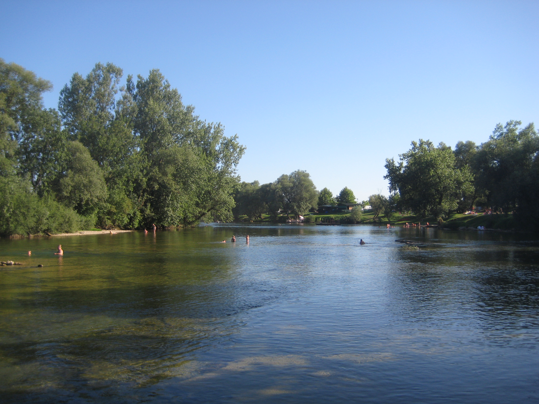 Kolpa river near Podzemelj, Slovenia